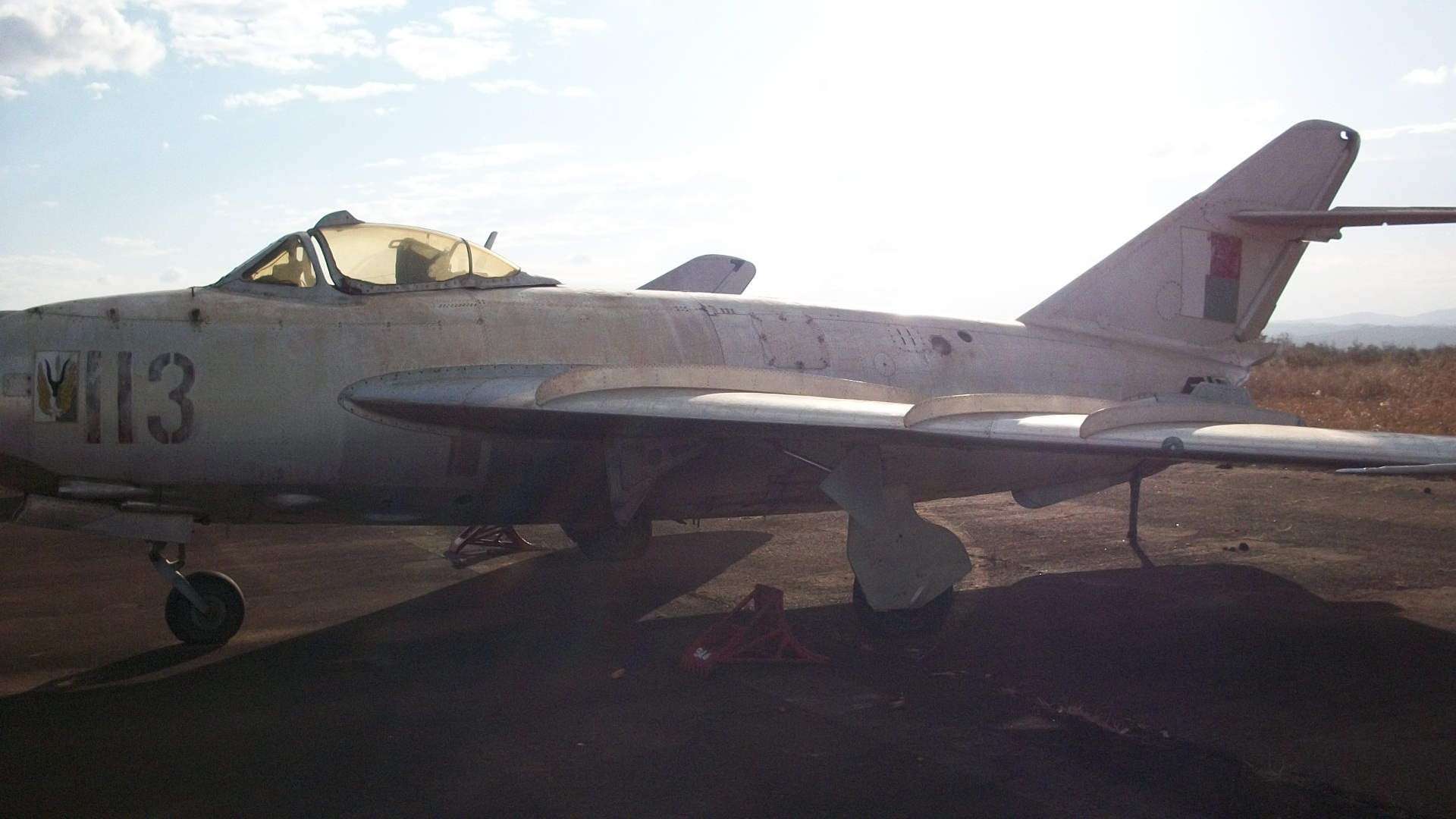 Photo of a Mig-17 of malagasy Forces, Avion de chasse